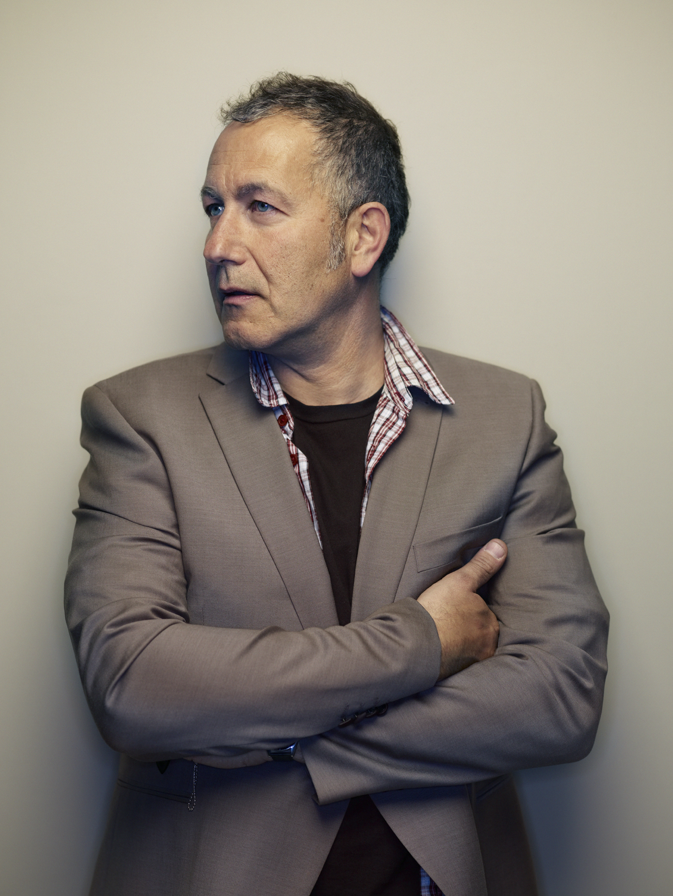 Nadav Kander in his London Studio.